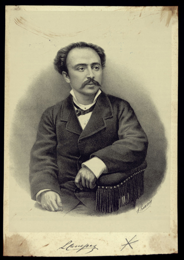 Portrait of Luigi Canepa, composer (1849-1914), before 1885.